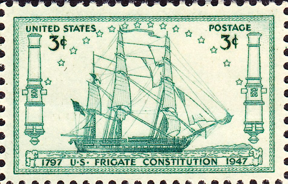 USS Constitution, 150th Anniversary Issue of 1947, 3c, light green